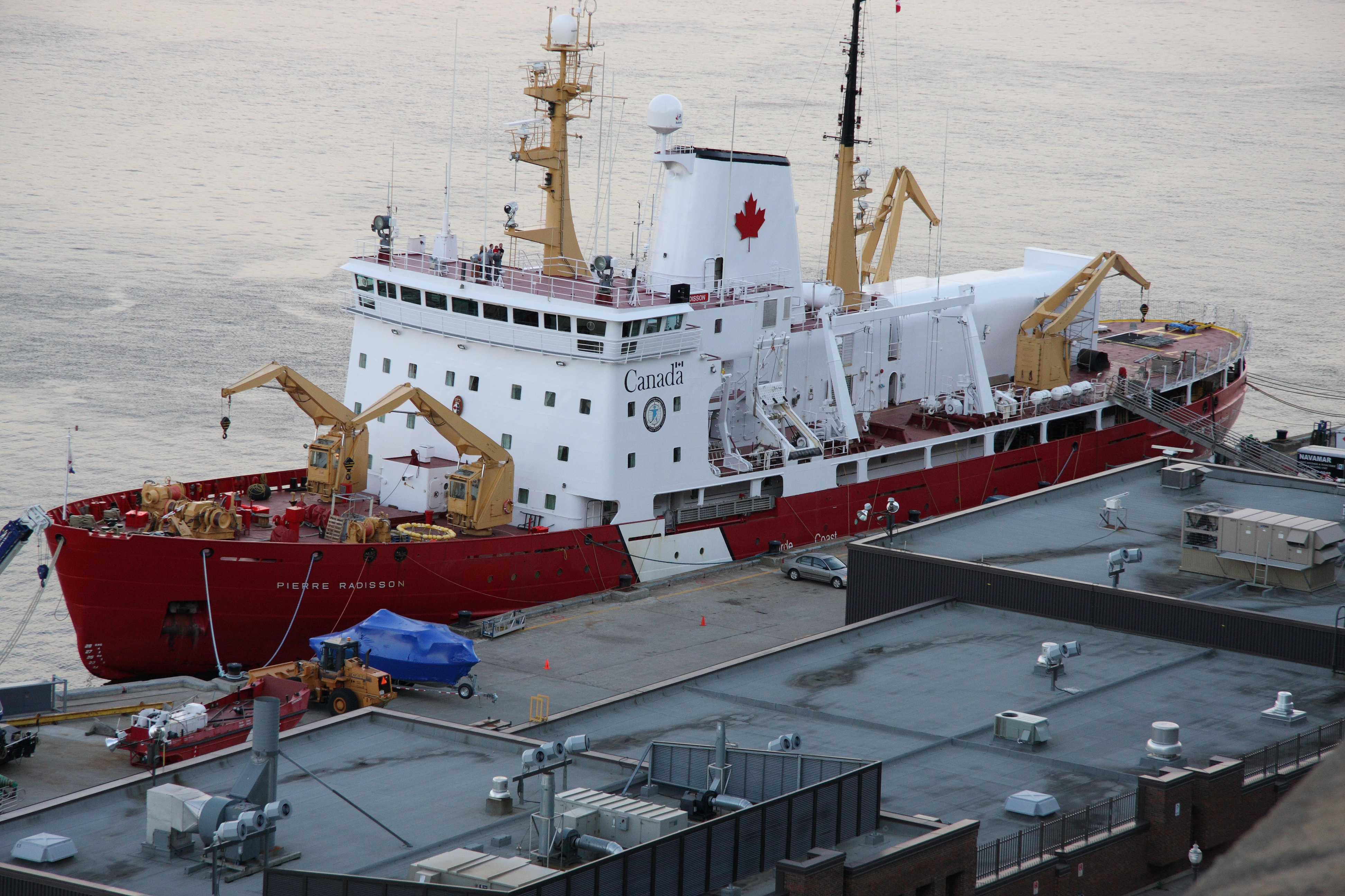 Canadian Coast Guard Ship Pierre Radisson, Quebec City, Canada